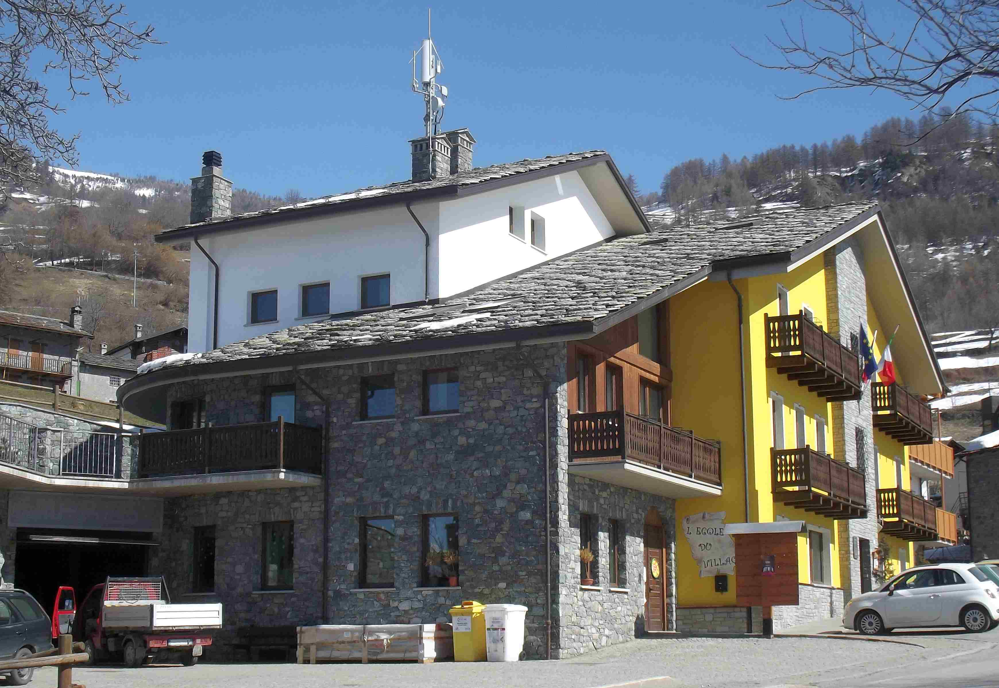 Émarèse (AO, Italy): town hall (at Eresaz)